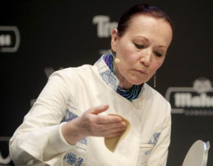 Patricia Quintana is an acclaimed chef, teacher, and author who started Mexico City’s first culinary institute, penned over ten cookbooks, and continues to run the immensely popular Mexico City restaurant Izote, named for the orchid-like flower of the yucca plant. She has traveled the world as an ambassador of Mexican cuisine, been the executive chef for the Mexican Ministry of Tourism.